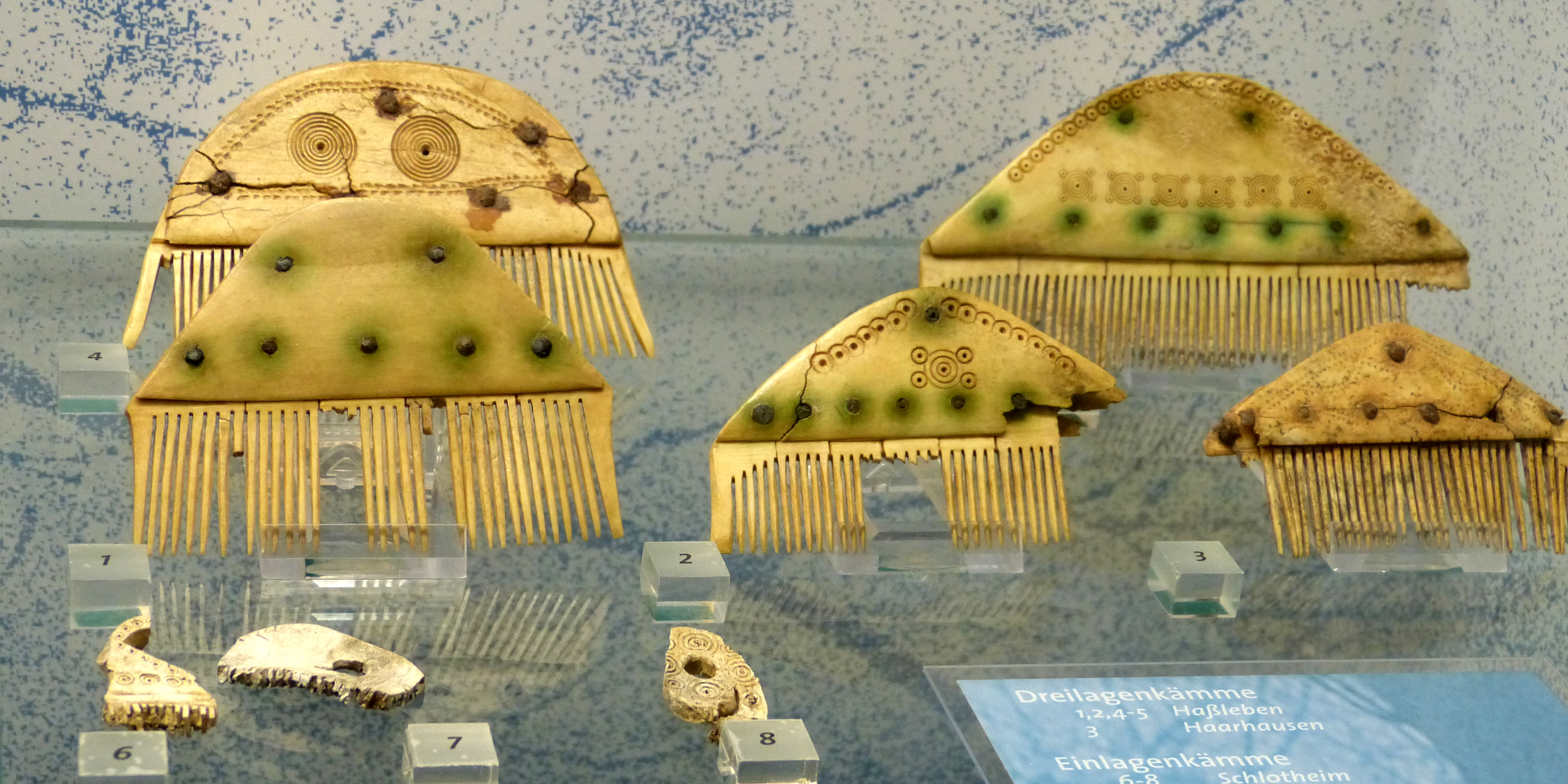 Weimar ( Thuringia ). Museum for Prehistory in Thuringia: Ancient Germanic bone combs from Haßleben.